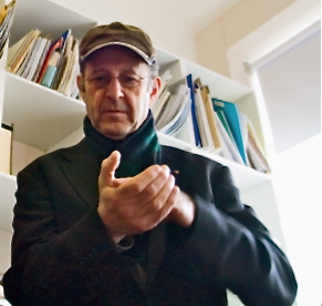 American composer Steve Reich performing clapping Music, 2006